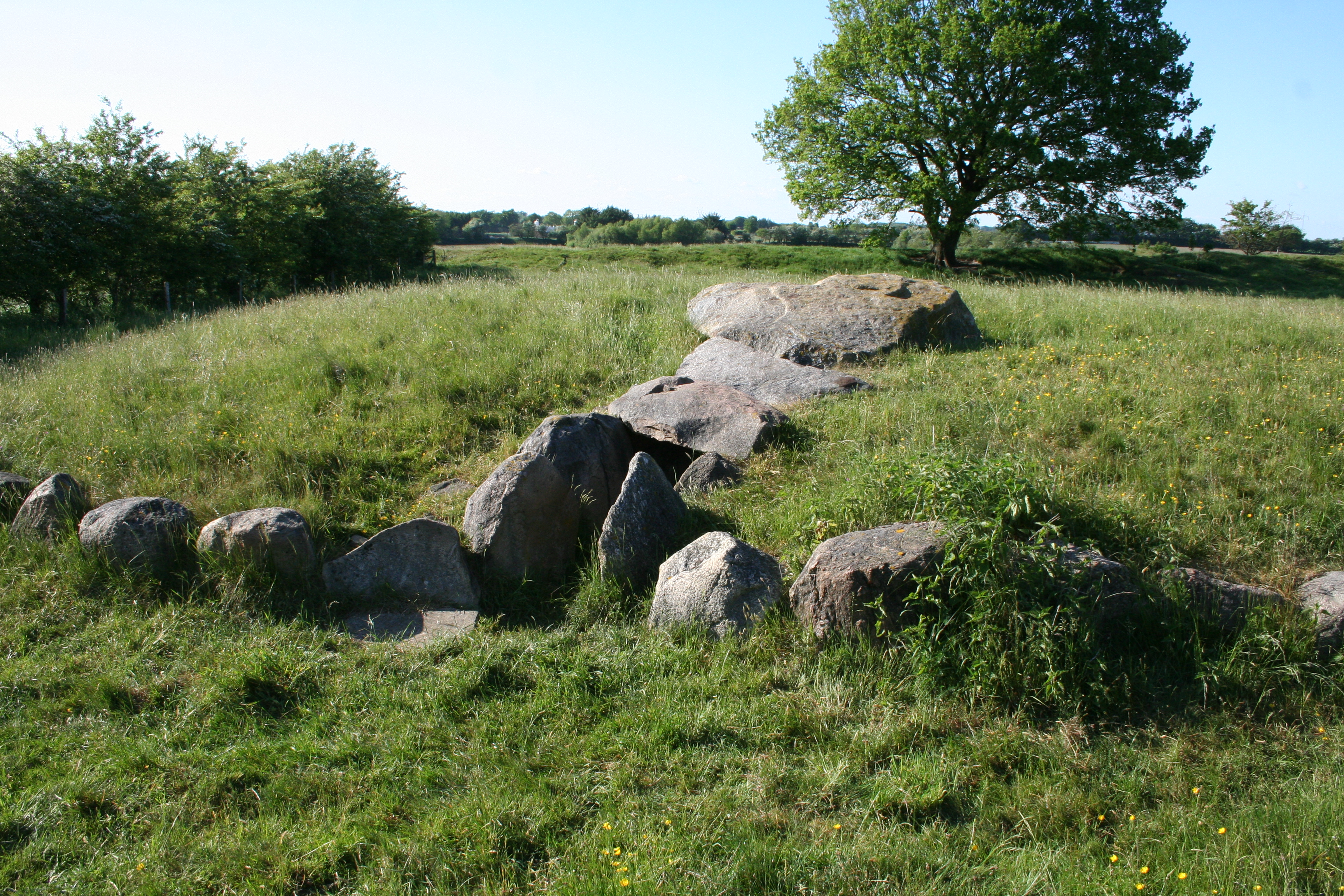 Vedsted Jættestue 1